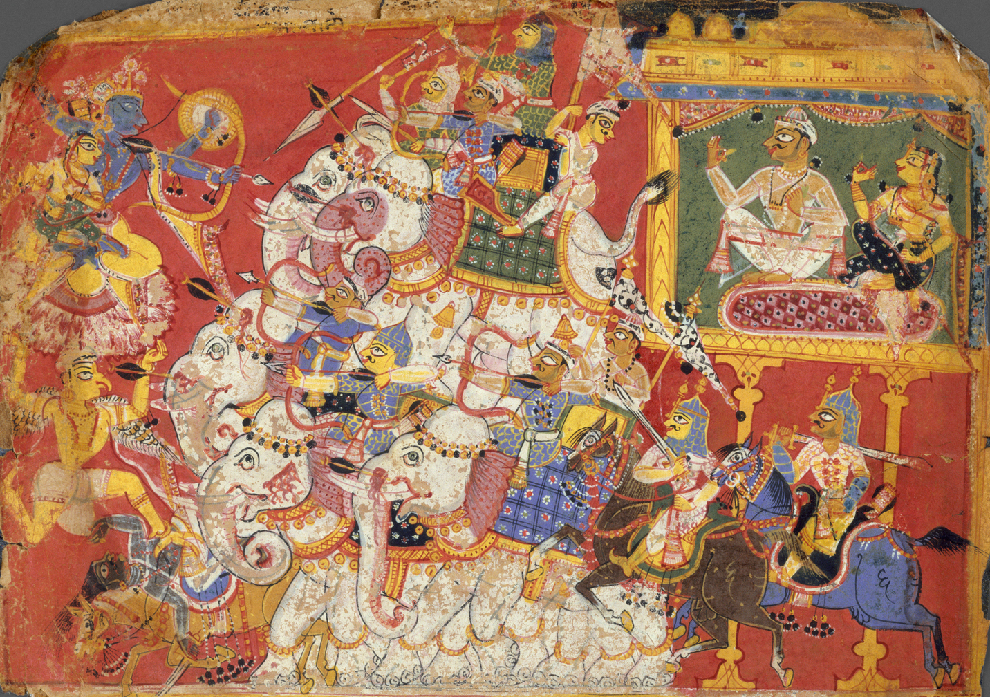 Krishna Battles the Armies of the Demon Naraka: Page from a Dispersed Bhagavata Purana (Ancient Stories of Lord Vishnu) The Bhagavata Purana describes Vishnu’s avatars (manifestations), Krishna being the most significant. The demon Naraka and his consort are shown (upper right) sitting in the fortified city of Pragyotisha. Krishna and his consort Satyabhama are shown at the upper left riding on Garuda (the solar bird mount of Vishnu), “like a cloud with lightning sitting above the sun.” The hierarchical organization of this painting juxtaposes Krishna and Naraka, while the surging elephants at center attest to their dramatic, violent conflict. This manuscript originally included more than two hundred illustrations, each of which had the pertinent section of text written on the reverse. Deli-Agra area, India